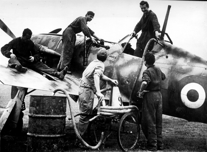 A Macchi C.205V of the Italian Co-Belligerent Air Force during refueling operations